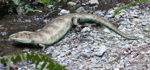 Colosteus